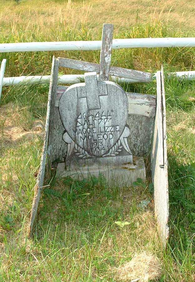 Cree syllabics on gravemarker at Stanley Mission, Saskatchewan, Canada